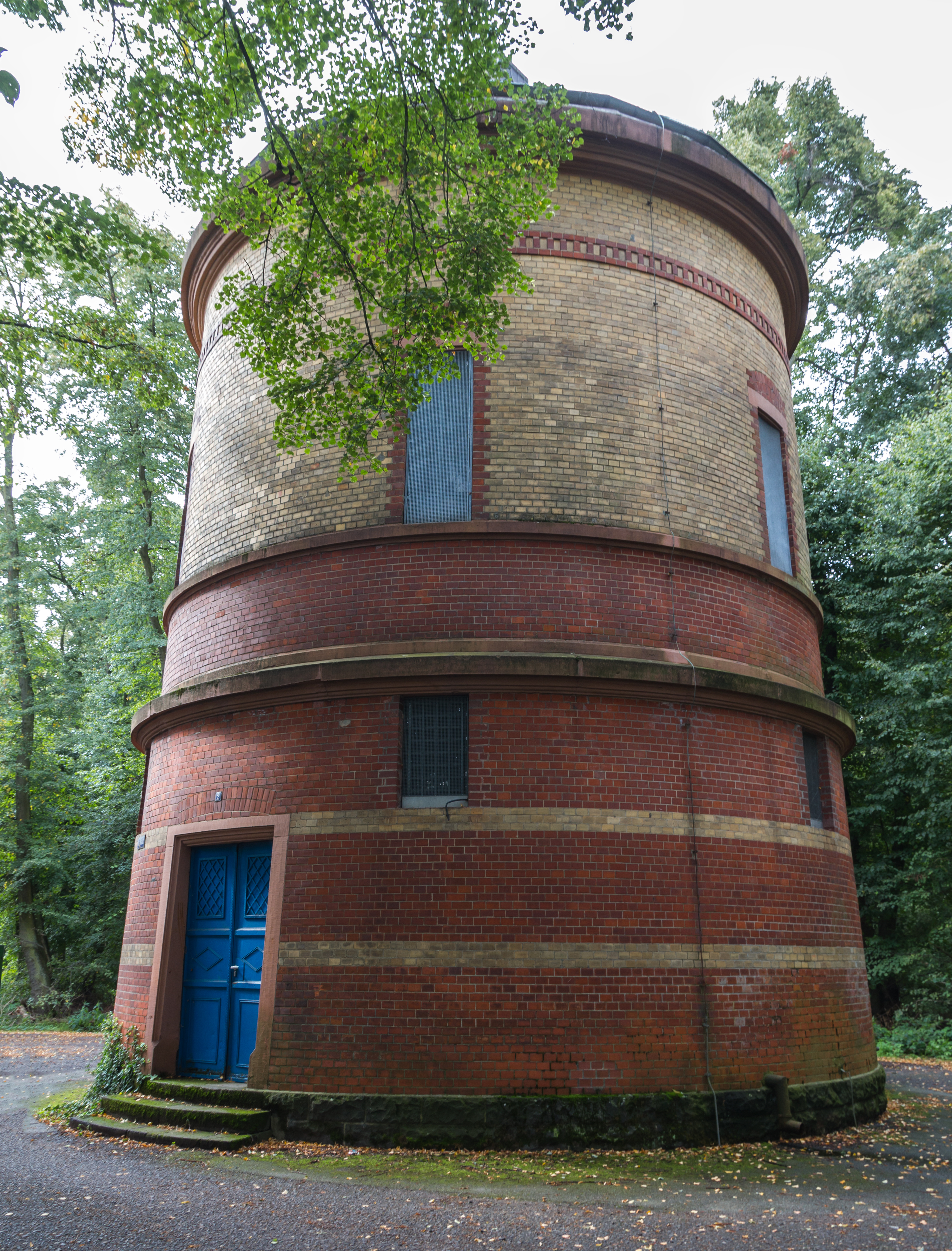 Water tower, Build 1899